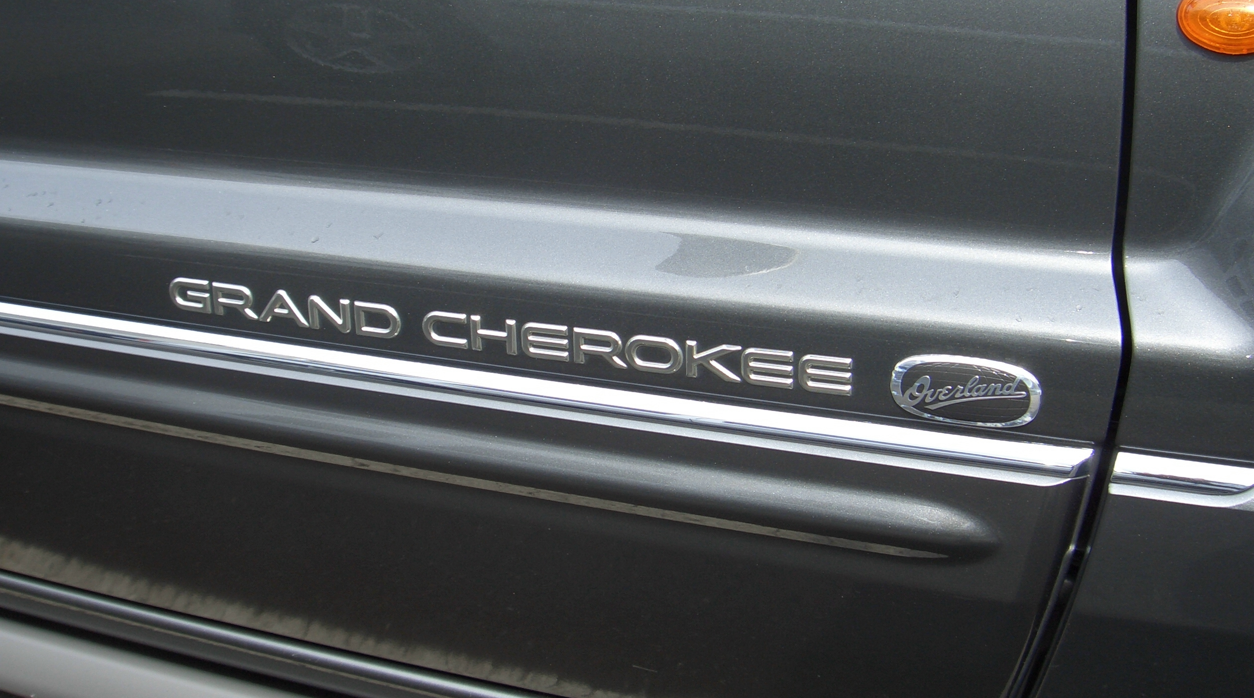 Jeep Grand Cherokee (WK, from 2005), special edition OVERLAND (from 2006), door badge